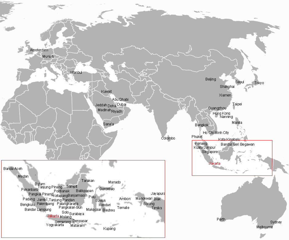 Air Routes from Soekarno-Hatta Airport, Jakarta.